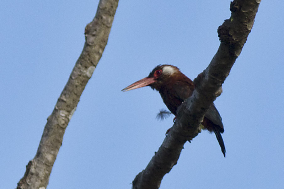 A White-eared Jacamar near Marañón River, Peru.